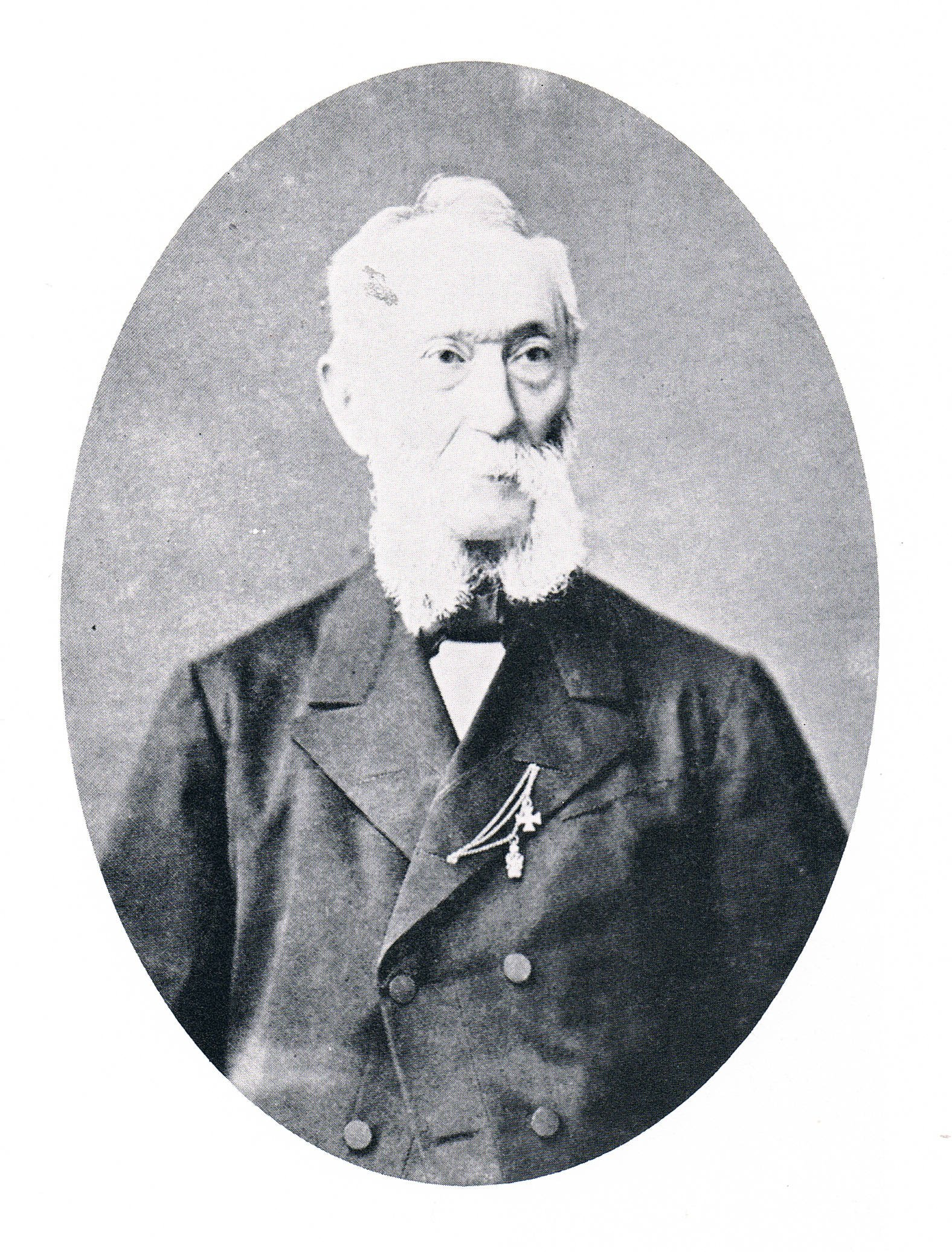 Karl Schmitz (1807-1882), Mayor of Mainz